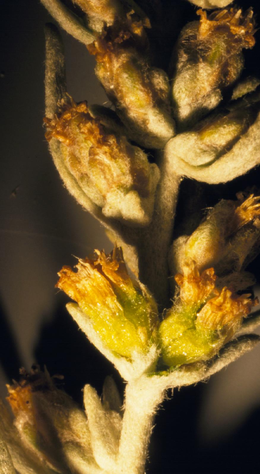 The disk corollas and ovaries are all well developed marginally and internally inside a single head suggesting that all flowers in a head are perfect, a characteristic of the shrubby species of Artemisia.